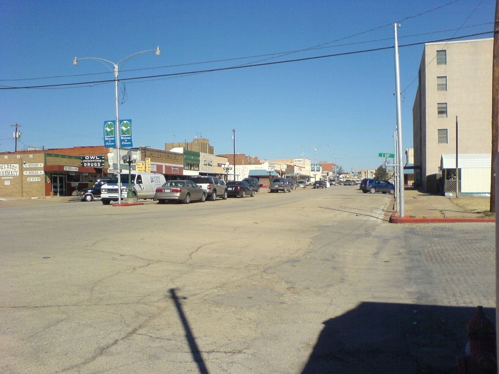 Downtown Coleman, Texas looking north along Commercial Avenue.